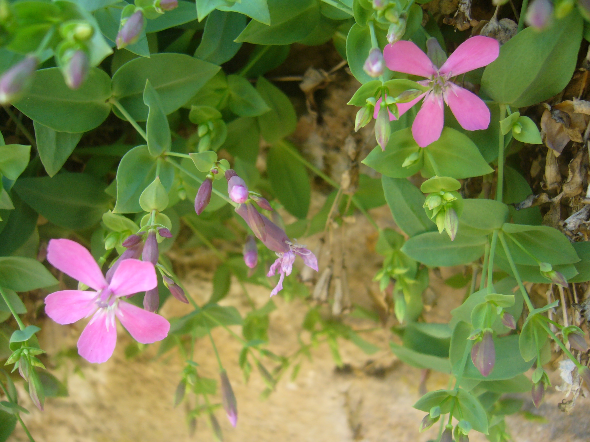 Petrocoptis grandiflora in the Natural Park of Serra de Enciña de Lastra, Orense, Galicia, Spain.